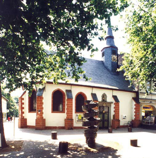 Die Georgskapelle in der Fußgängerzone der Kreisstadt Bergheim